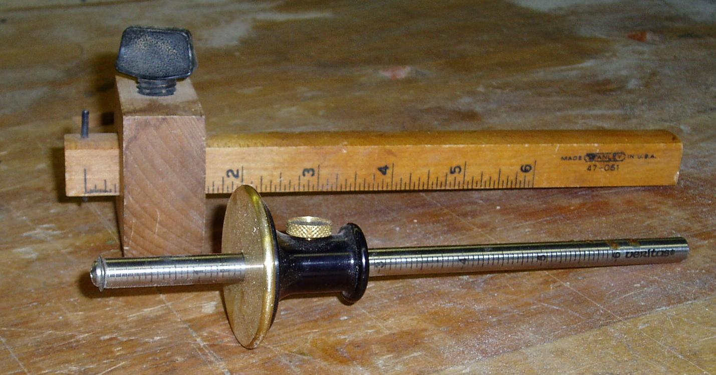 Picture of marking gauges taken 27 August, 2005 by Luigi Zanasi (myself) on my workbench using a Olympus digital camera.